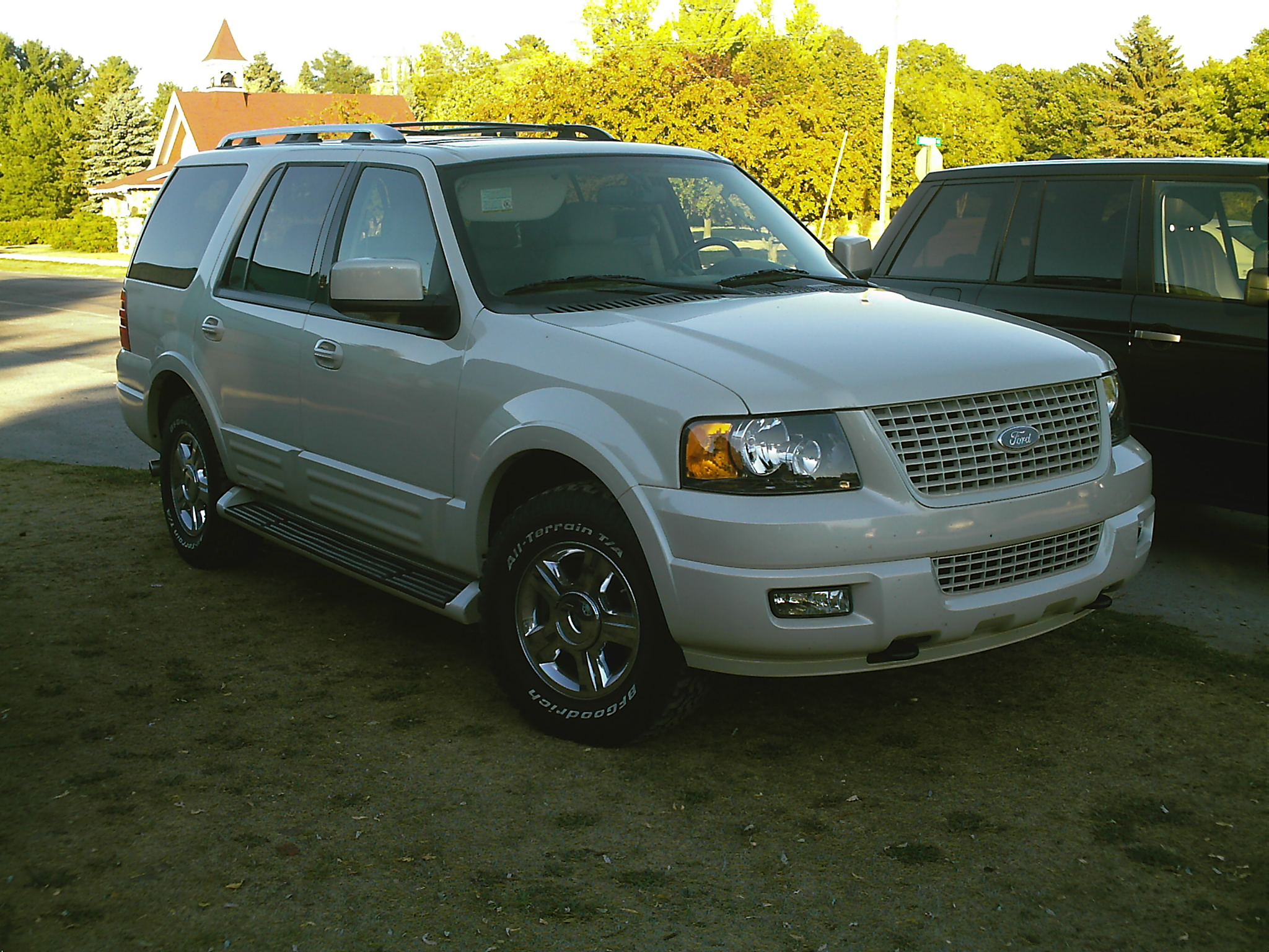 2006 Ford Expedition, photographed in Cross Village, Michigan.v